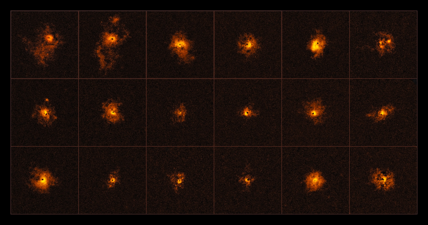 This mosaic shows 18 of the 19 quasars observed by an international team of astronomers, led by the ETH Zurich, Switzerland. Each observed quasar is surrounded by a bright gaseous halo. It is the first time that a survey of quasars shows such bright halos around all of the observed quasars. The discovery was made using the MUSE instrument at ESO’s Very Large Telescope.